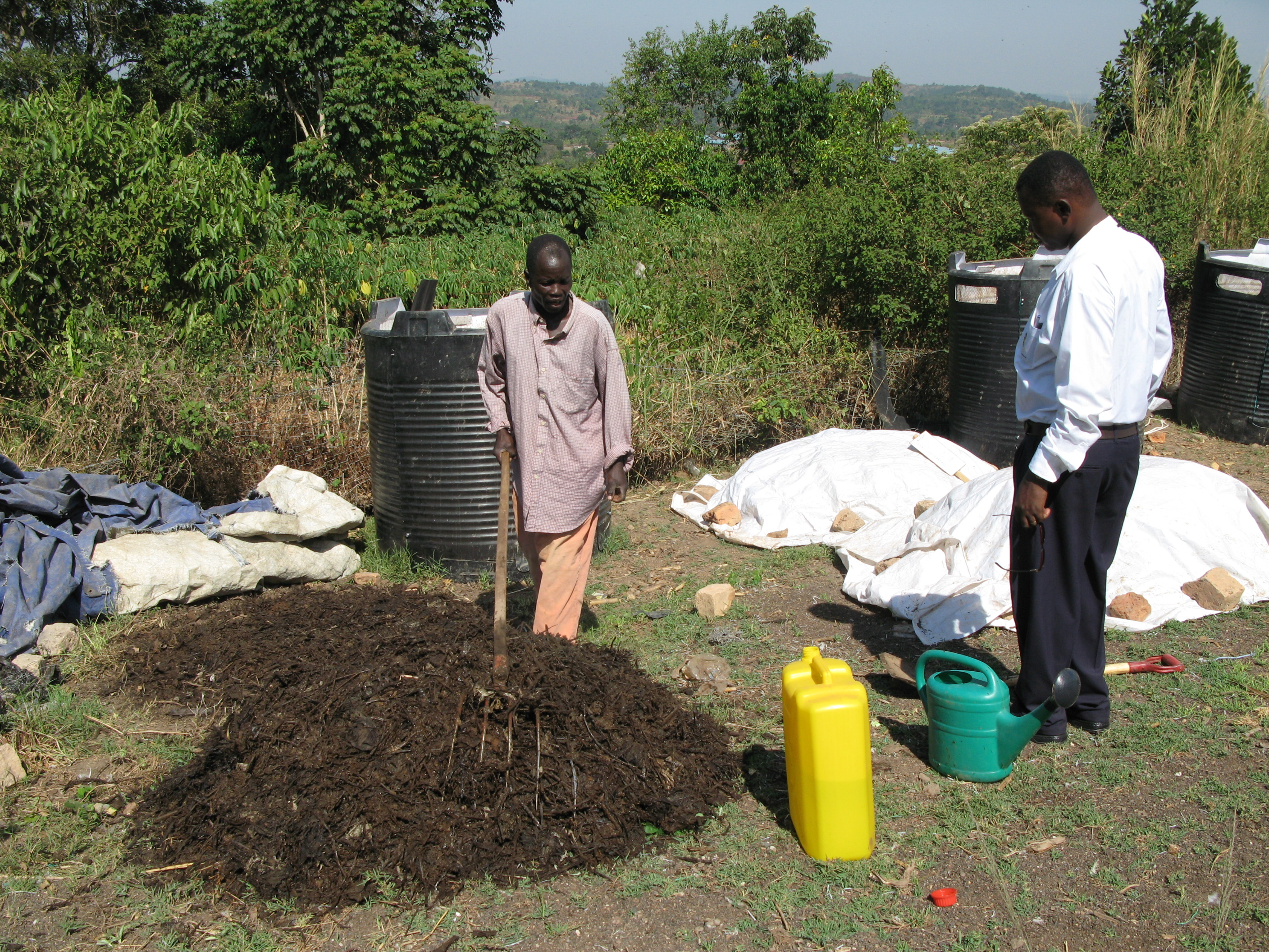 Our goal is to present rational and good production routines for urban bio materials - 1 kg of bio waste is generated in Kampala per person per day and most of this enormous volume does not find its way back to agricultural production. Composting can be one way to bring more of this valuable material back and we are testing the composting methodology of Sir Howard. We are also testing how the method handles bio materials from sanitation. How efficient is the method in treating human excreta?